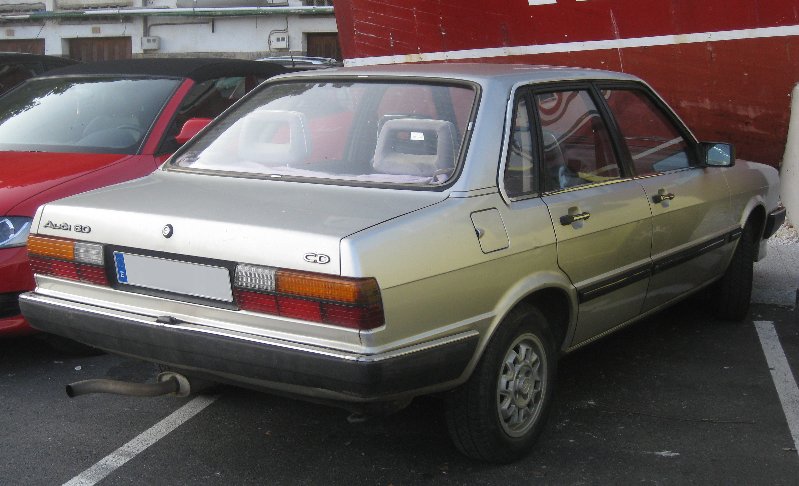 Really really nice in my opinion, specially with those wheels! It had a 1983 plate from Oviedo (Asturias) and was seen in Lastres (Asturias).